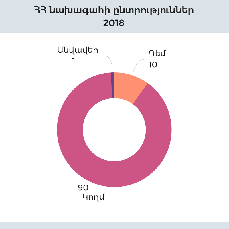 Armenian presidential election, 2018